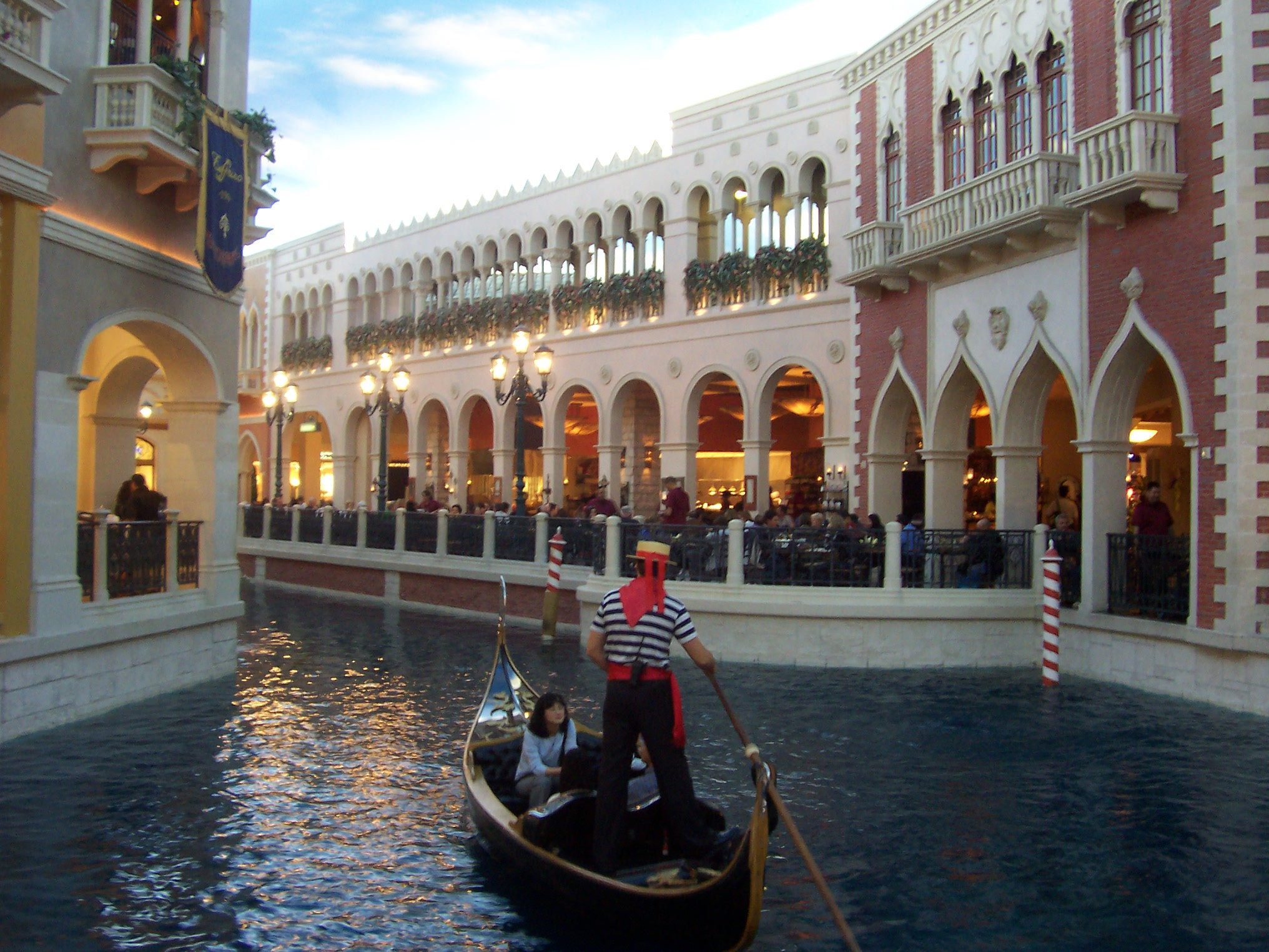 A gondola in The Venetian in Las Vegas